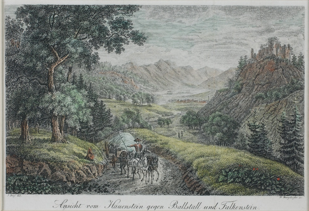 Coloured copper engraving depicting the view from the "Oberer Hauenstein" pass towards Balsthal and Neu-Falkenstein castle (Canton of Solothurn, Switzerland).